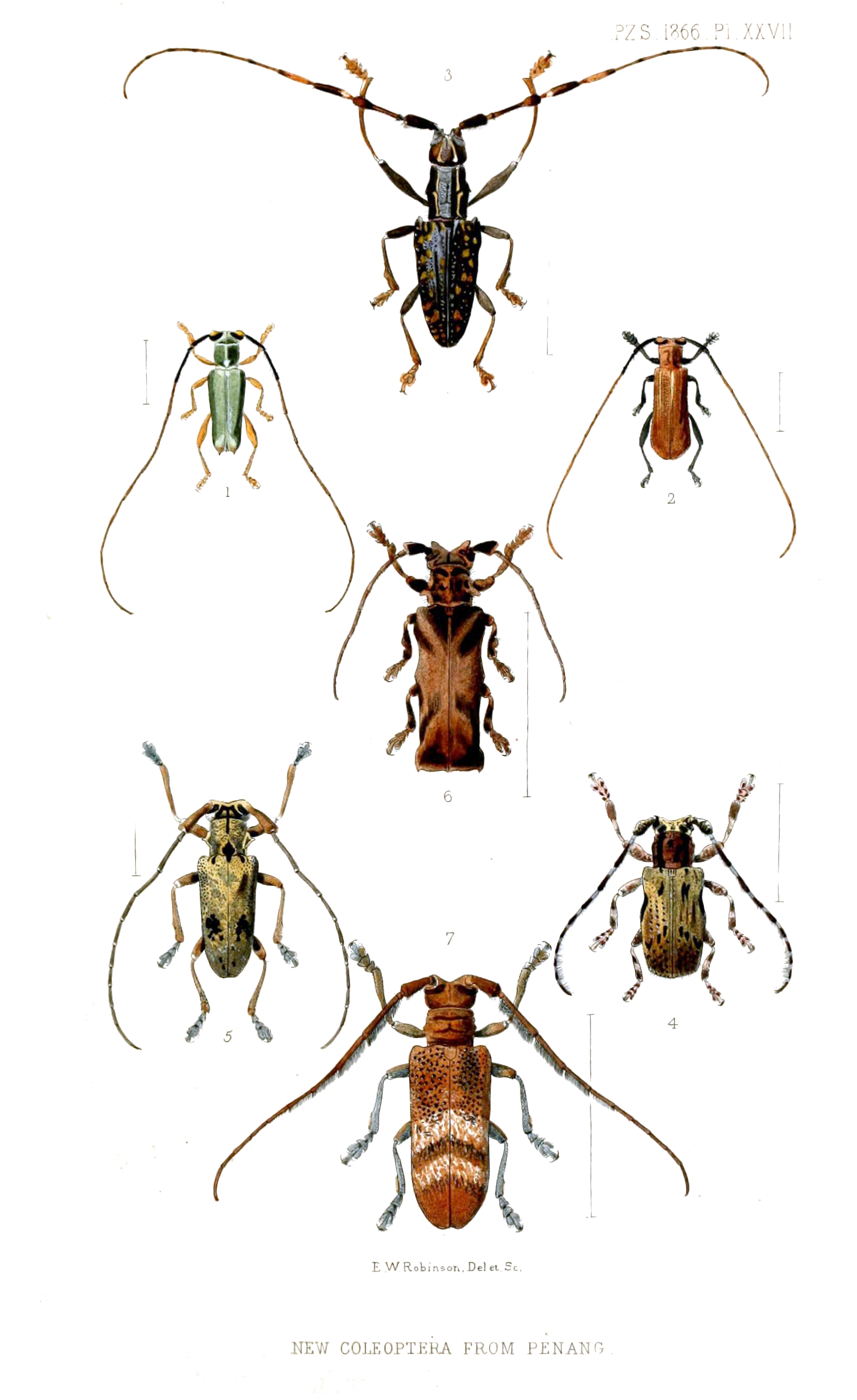 Flat-faced longhorn beetles from Penang